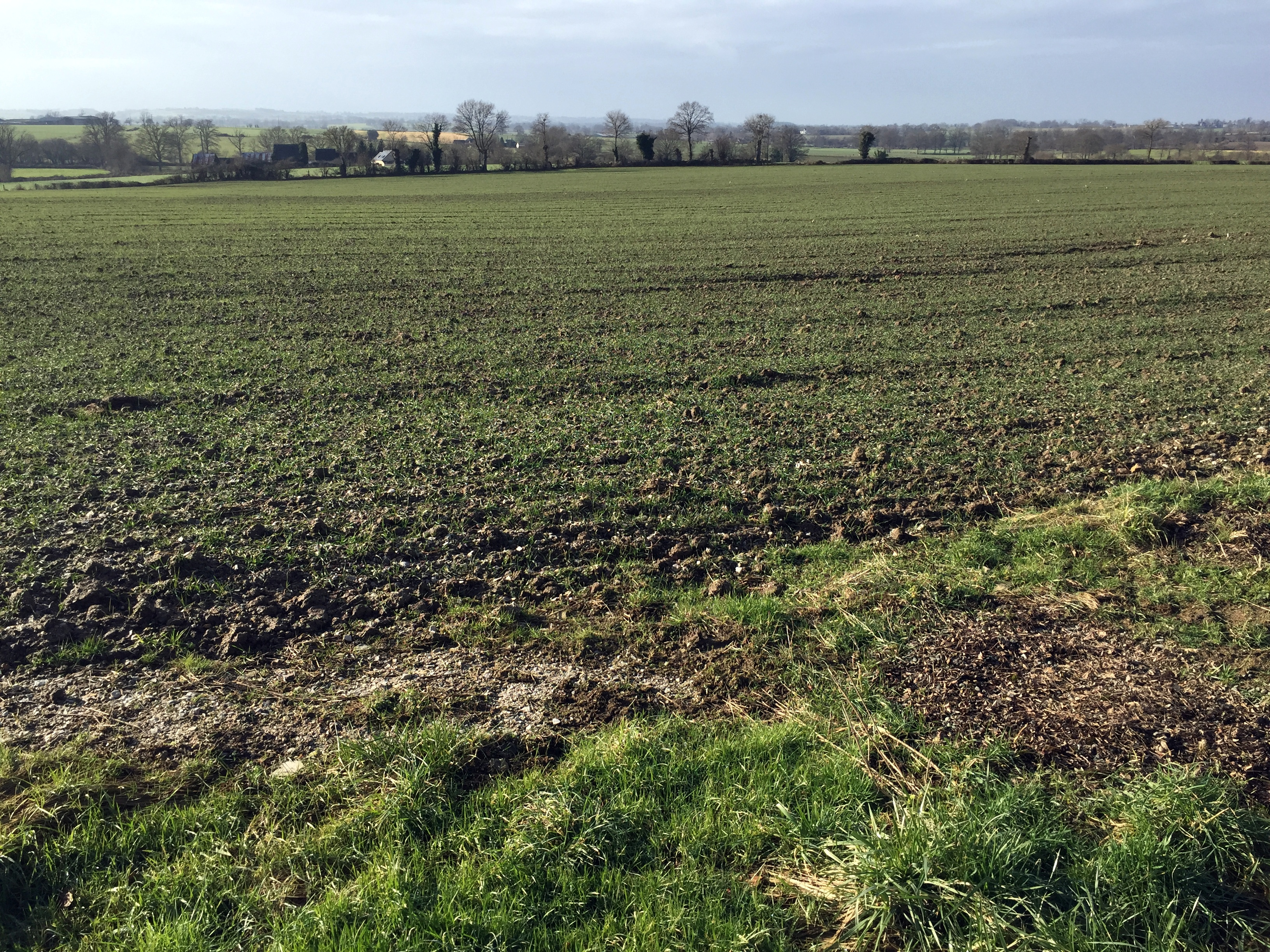 This photograph was taken with an iPhone 6